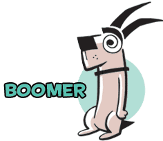 Boomer.png